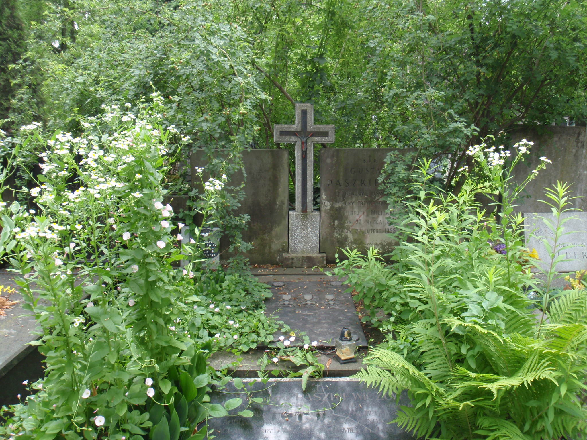 Grave of Gustaw Paszkiewicz